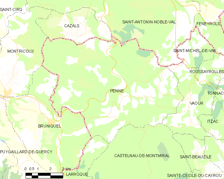 Map of French municipality Penne